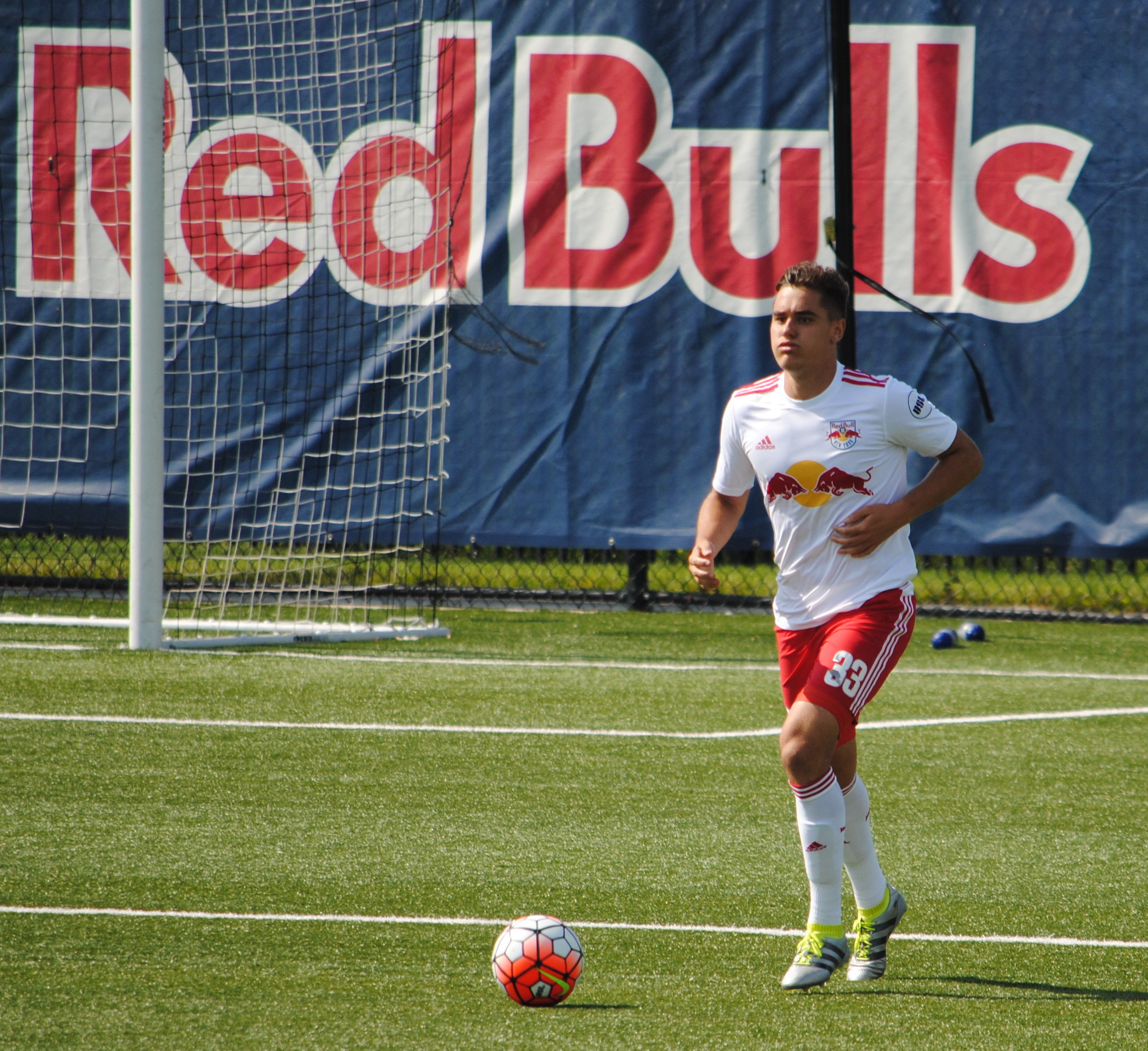 Long RBNYII